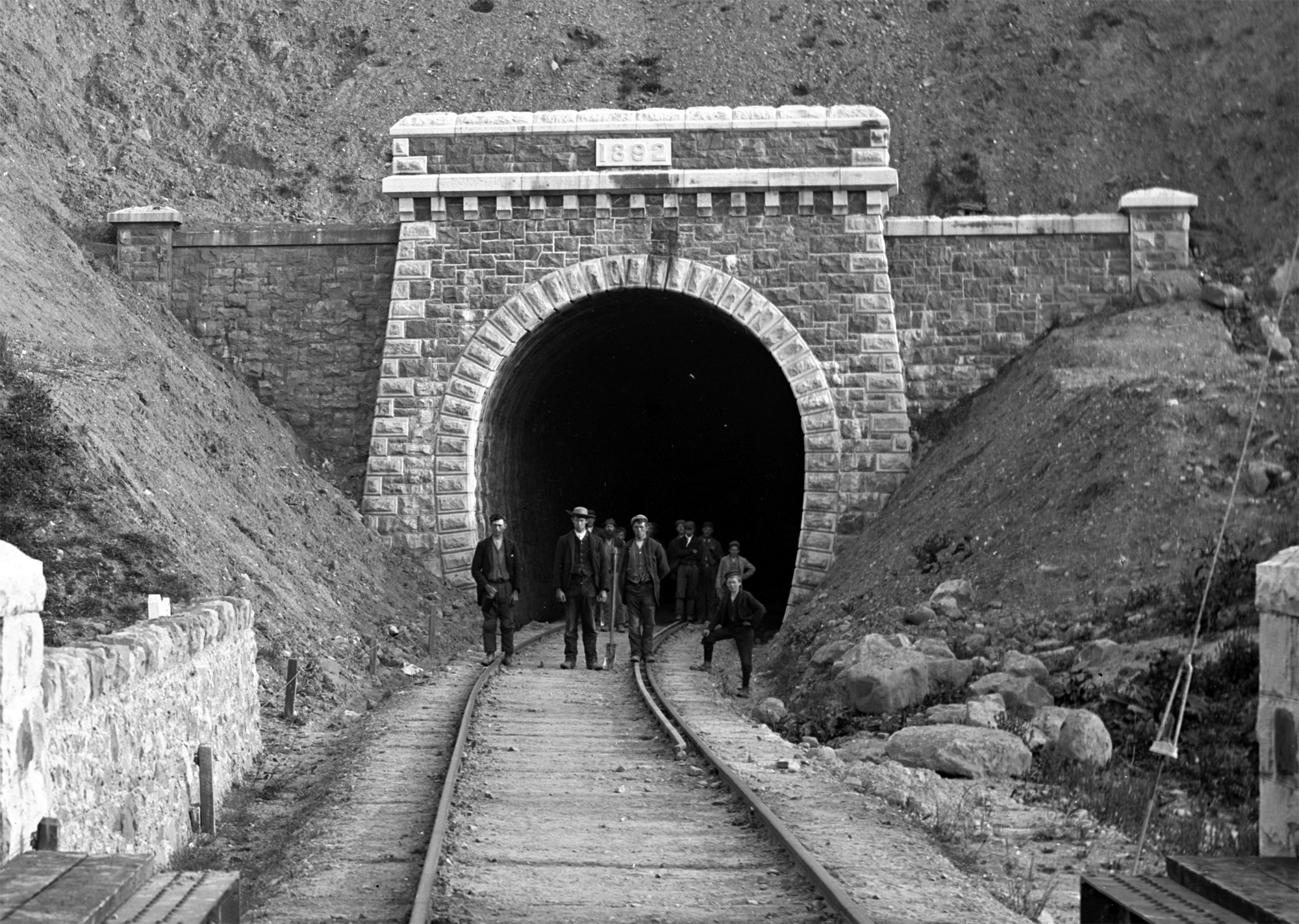 A railway tunnel in Newport, County Mayo, Republic of Ireland. The railway line was opened in 1894 on completion of this tunnel at the end of Newport Station. It was finally closed in September 1937.